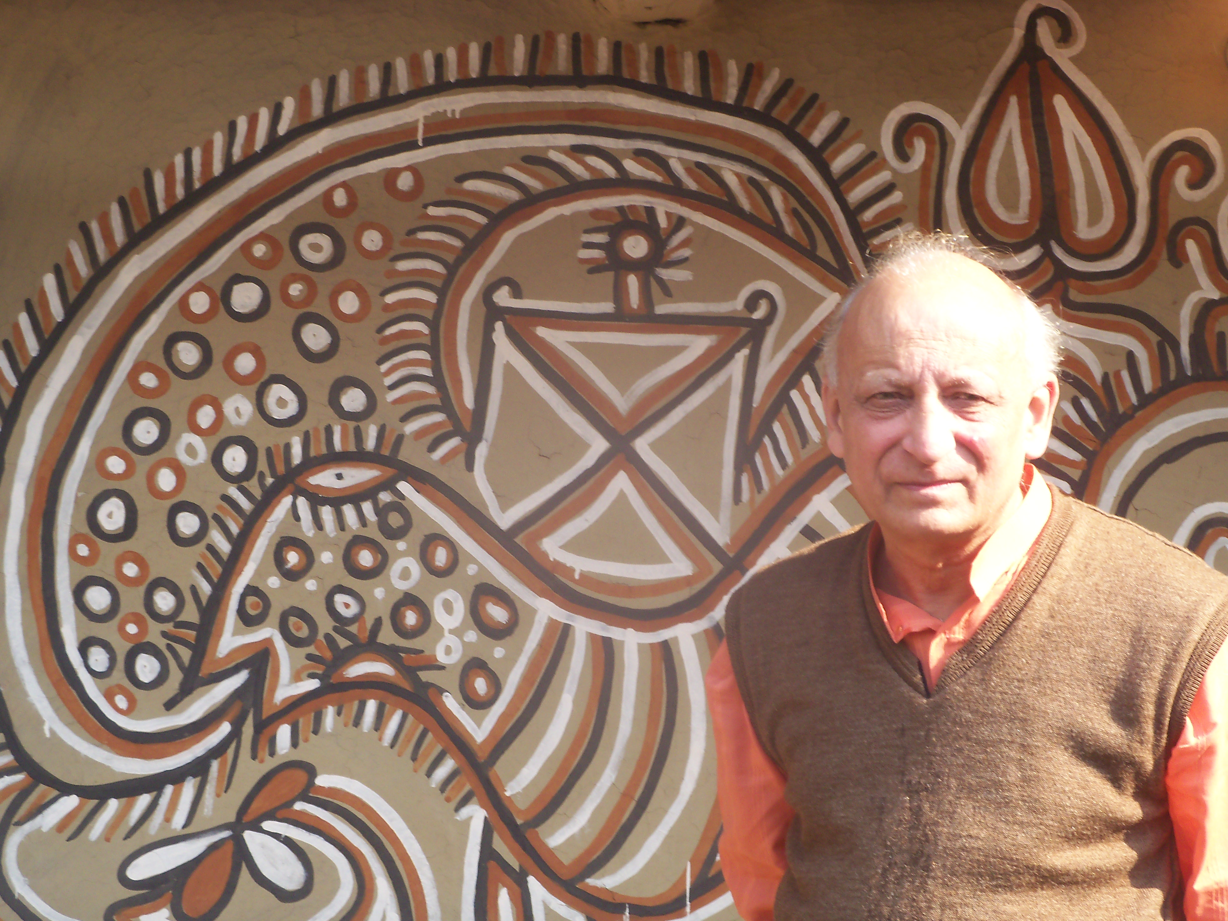 Bulu Imam, Bhelwara Sohrai, 2011